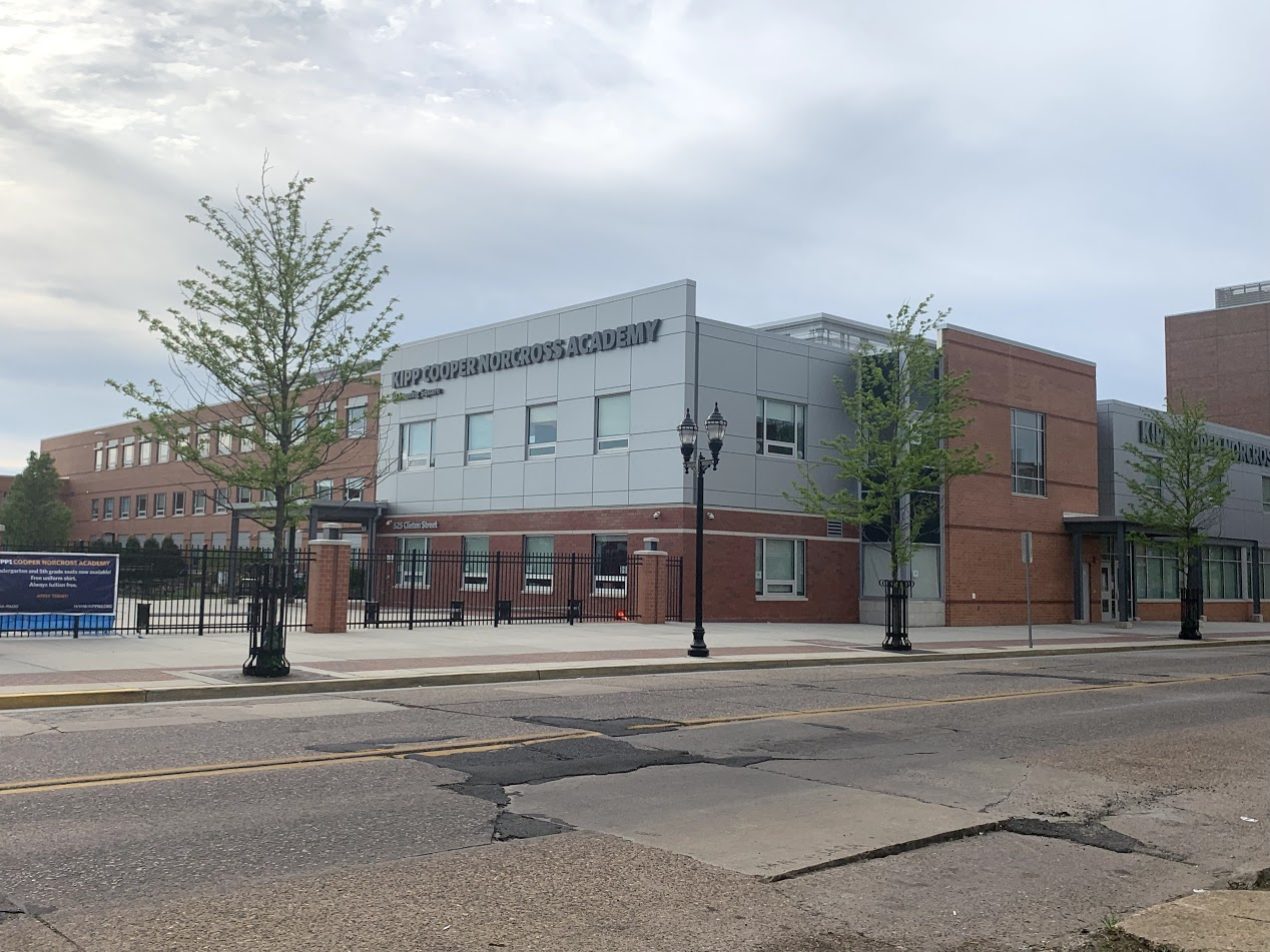 The building of KIPP Cooper Norcross Lanning Square Primary and Middle School located on Clinton Street in Camden, New Jersey